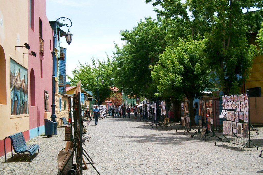 "Caminito" ("Little road"), street of La Boca, in Buenos Aires, Argentina